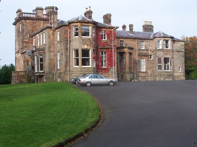 Manor Park Hotel.